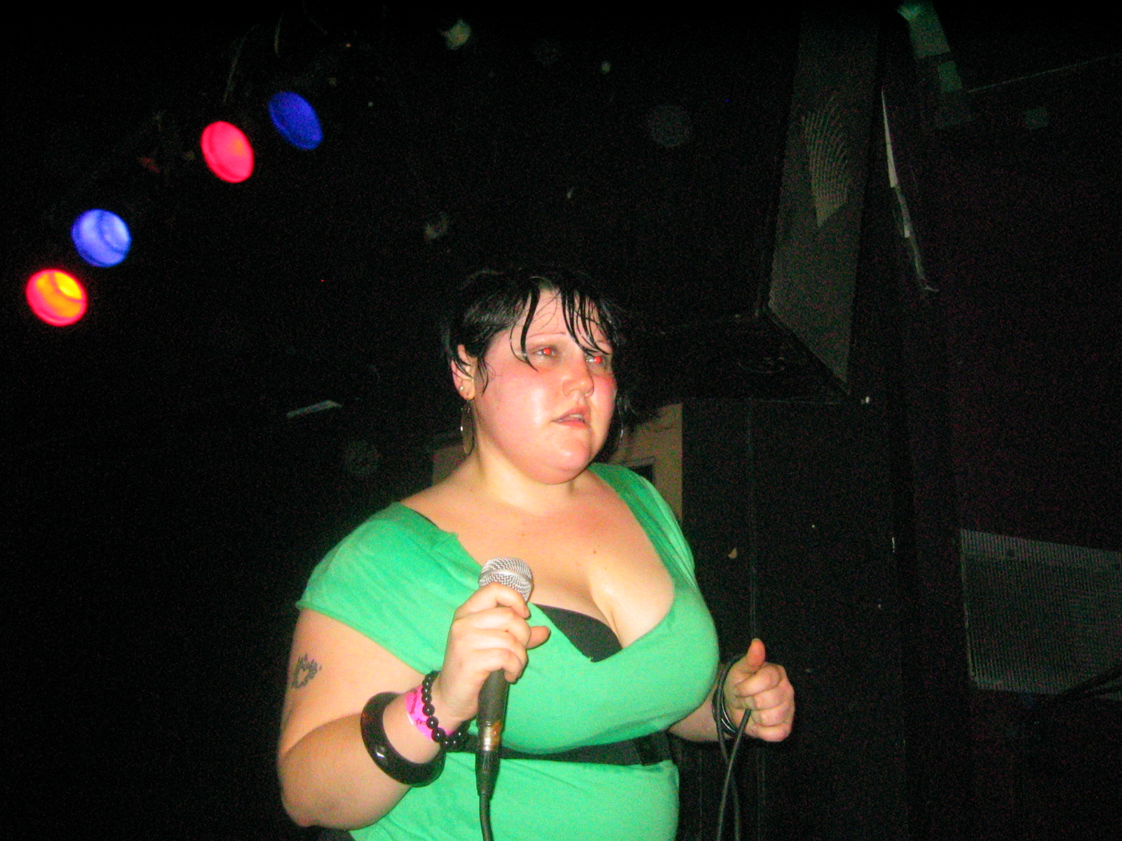 Beth Ditto at the Knitting Factory in Manhattan